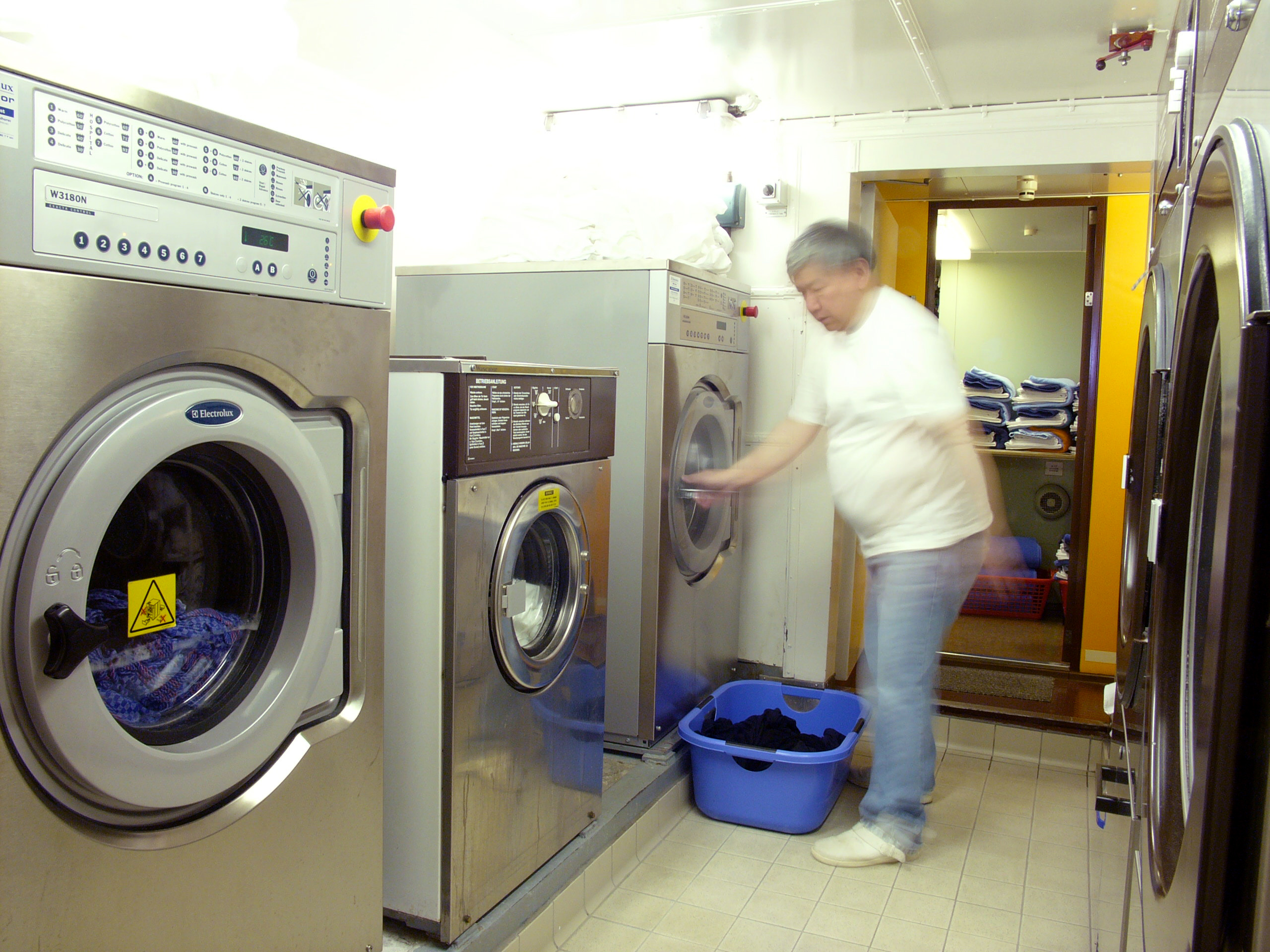 Photo from the German research vessel POLARSTERN laundry